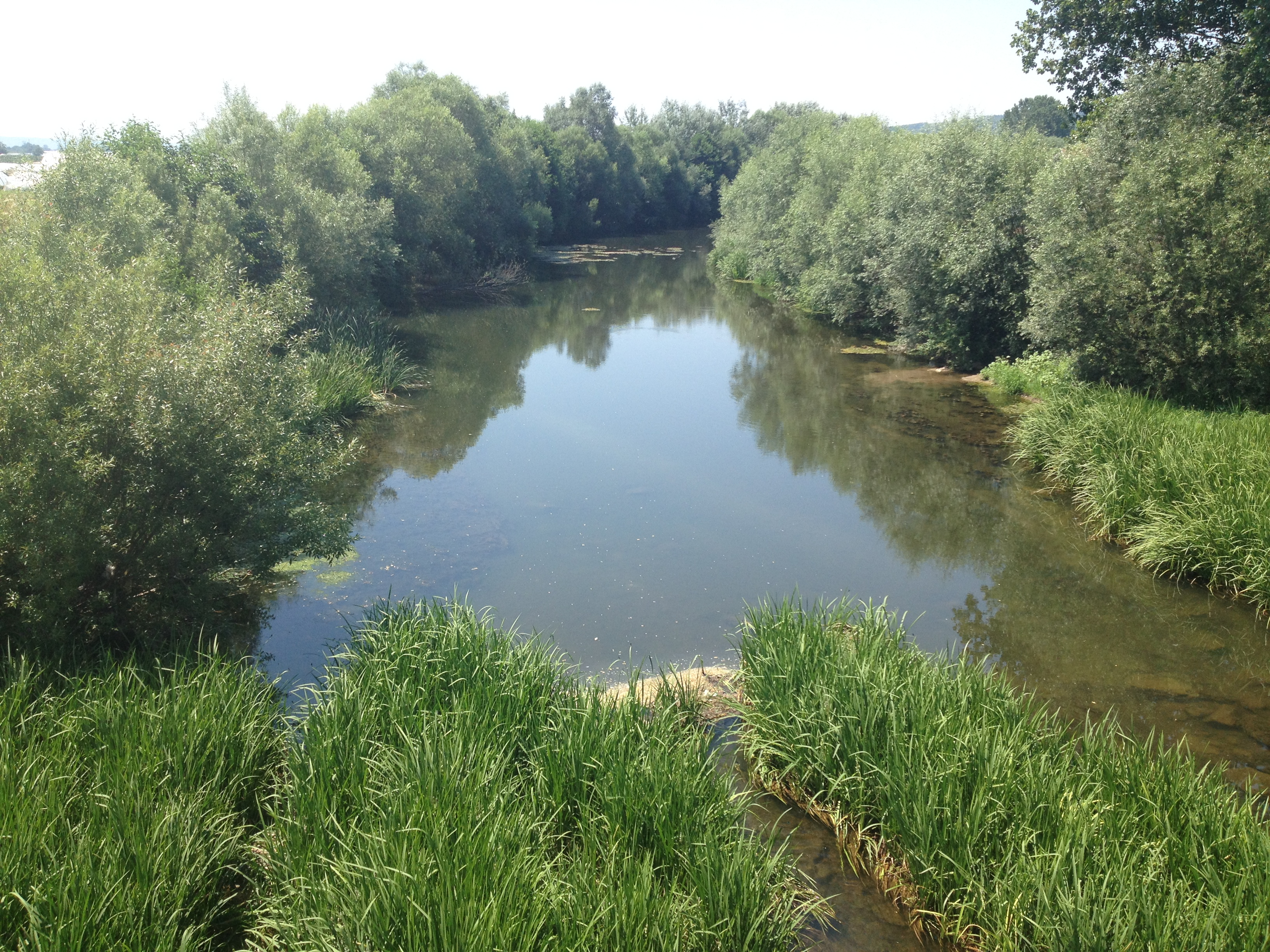 Jablanica riverСрпски (ћирилица): река Јабланица